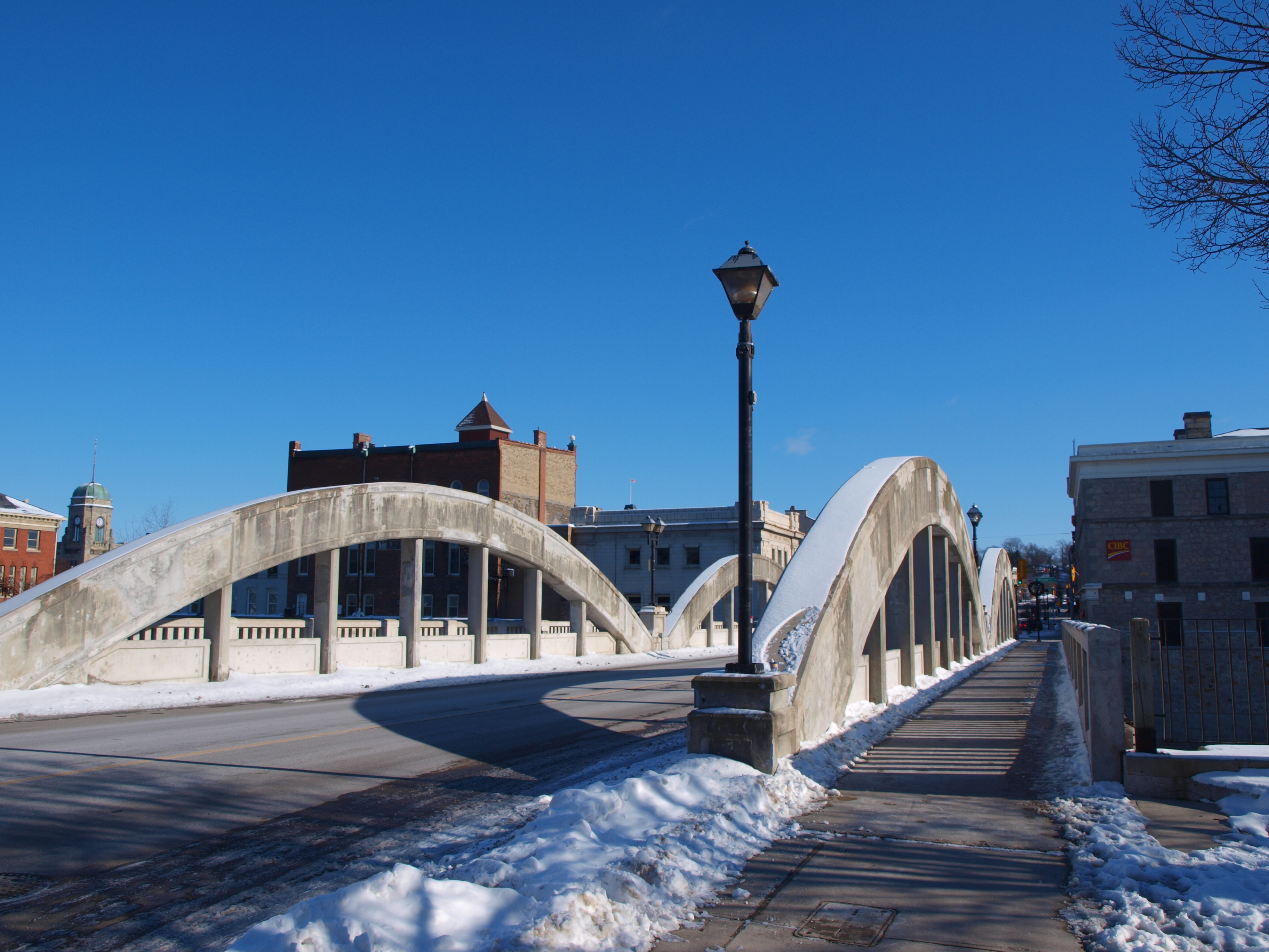 A view of Cambridge Main Street Bridge in Cambridge, Ontario. This is a view from the west side.